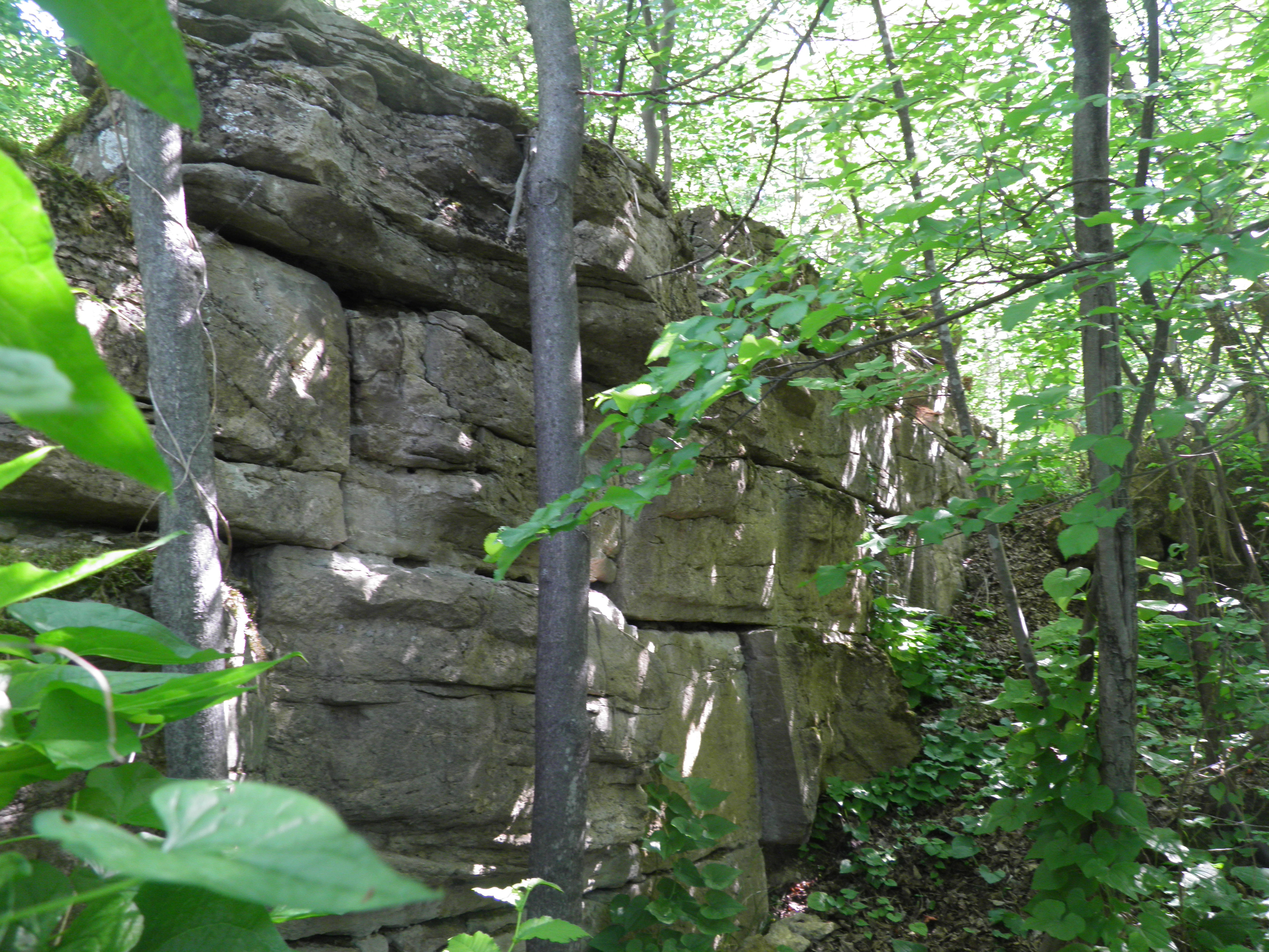 Ruins of Devingrad,Veliko Tarnovo,Bulgaria also called Momina krepost and Frank Hissar